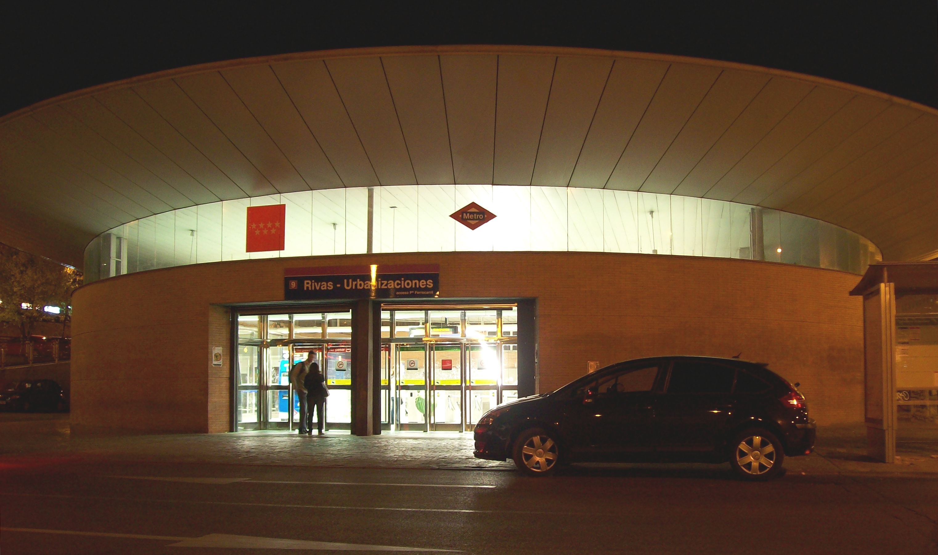 Entrance of Rivas-Urbanizaciones Metro station in Rivas-Vaciamadrid (Community of Madrid, Spain).